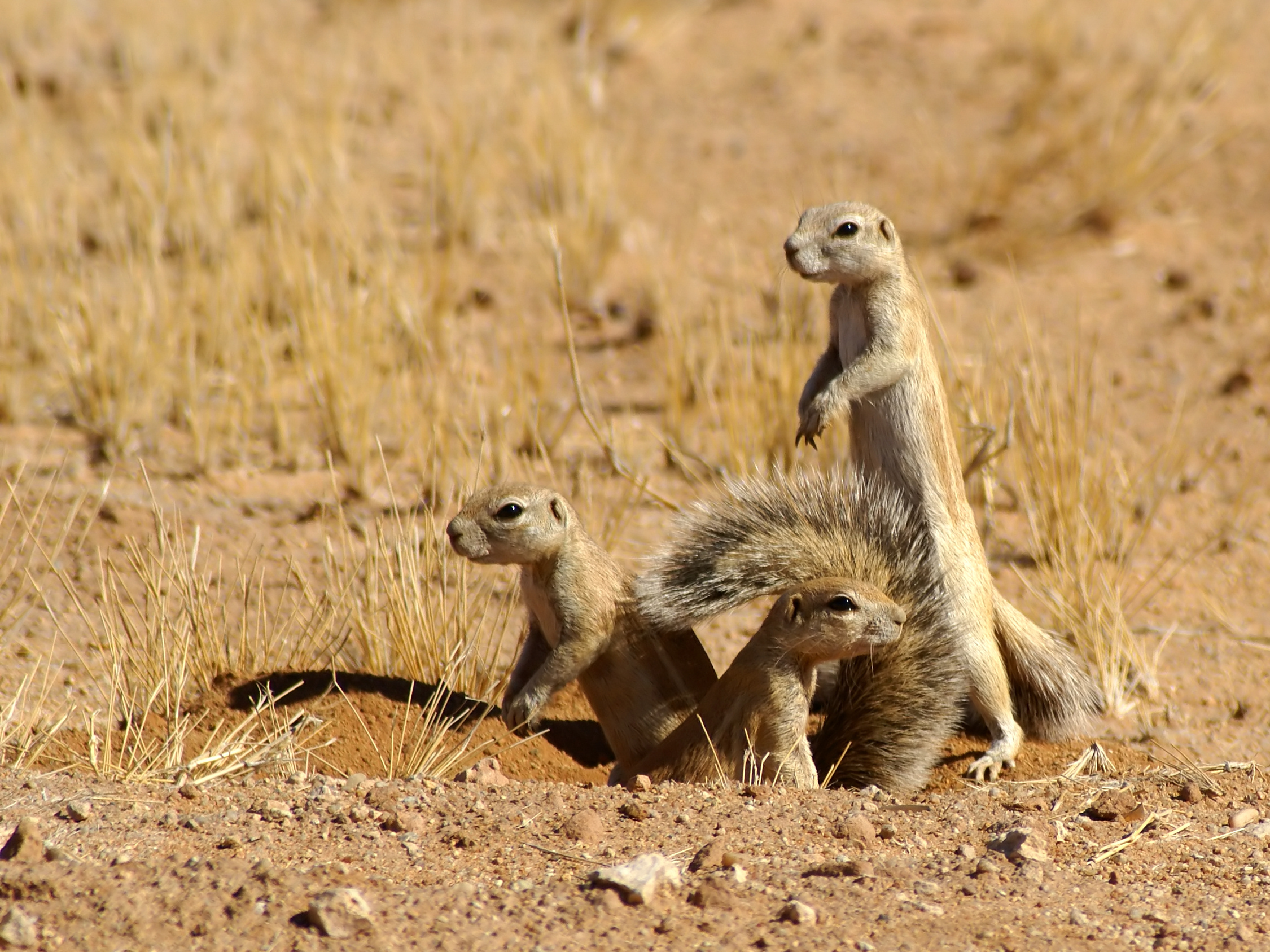 Cape Ground Squirrels emerge from communal burrow, close to Solitaire in the Namib desert, Namibia.